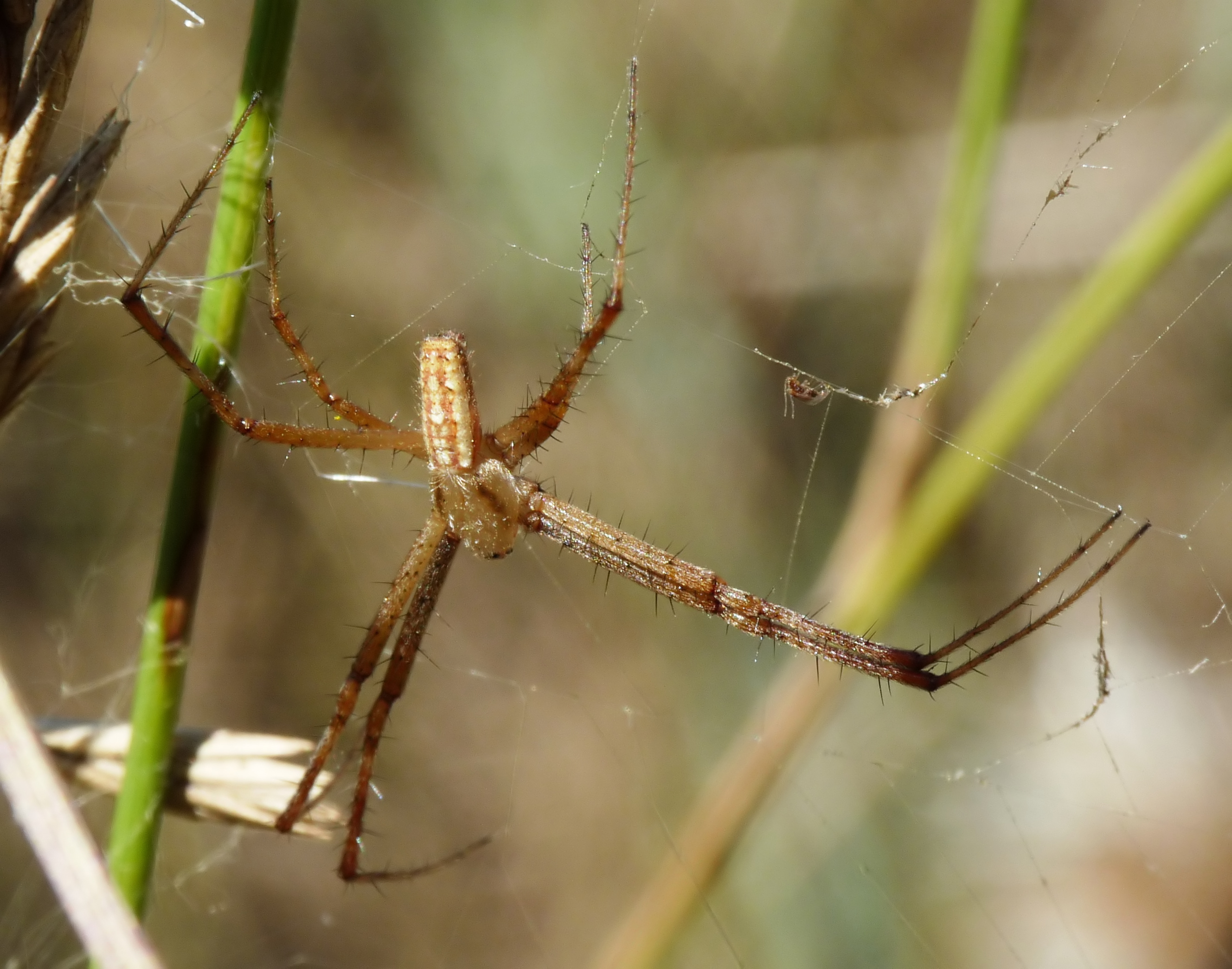 Spider Argiope bruennichi, male, near Livorno, Tuscany, Italy